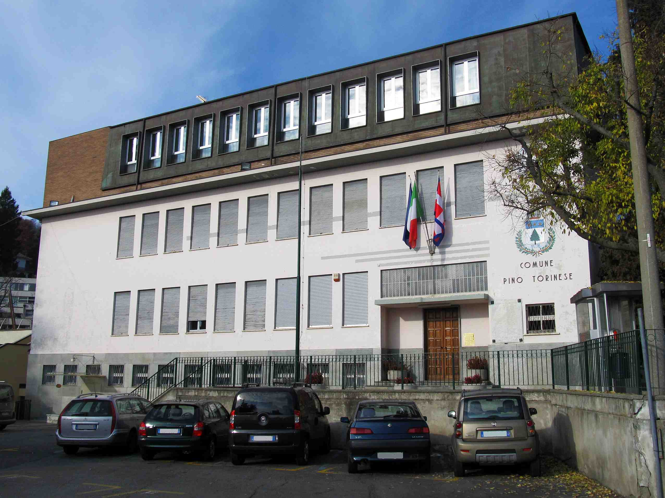 Pino Torinese (TO, Italy): town hall